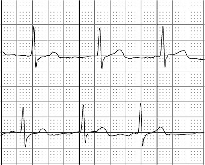 Atrial fibrillation - rate of approximately 79.